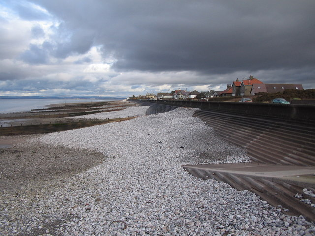 Effects of wave action A view looking to the northeast along the sea defences, showing the effects of wave action, leaving the stones piled on the ledges of the sea wall.